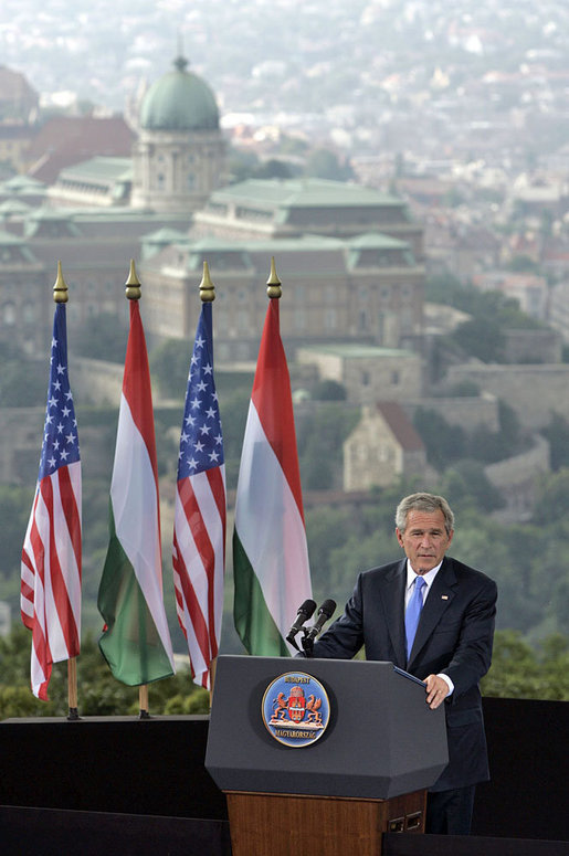 President George W. Bush speaks from Gellert Hill in Budapest, Hungary